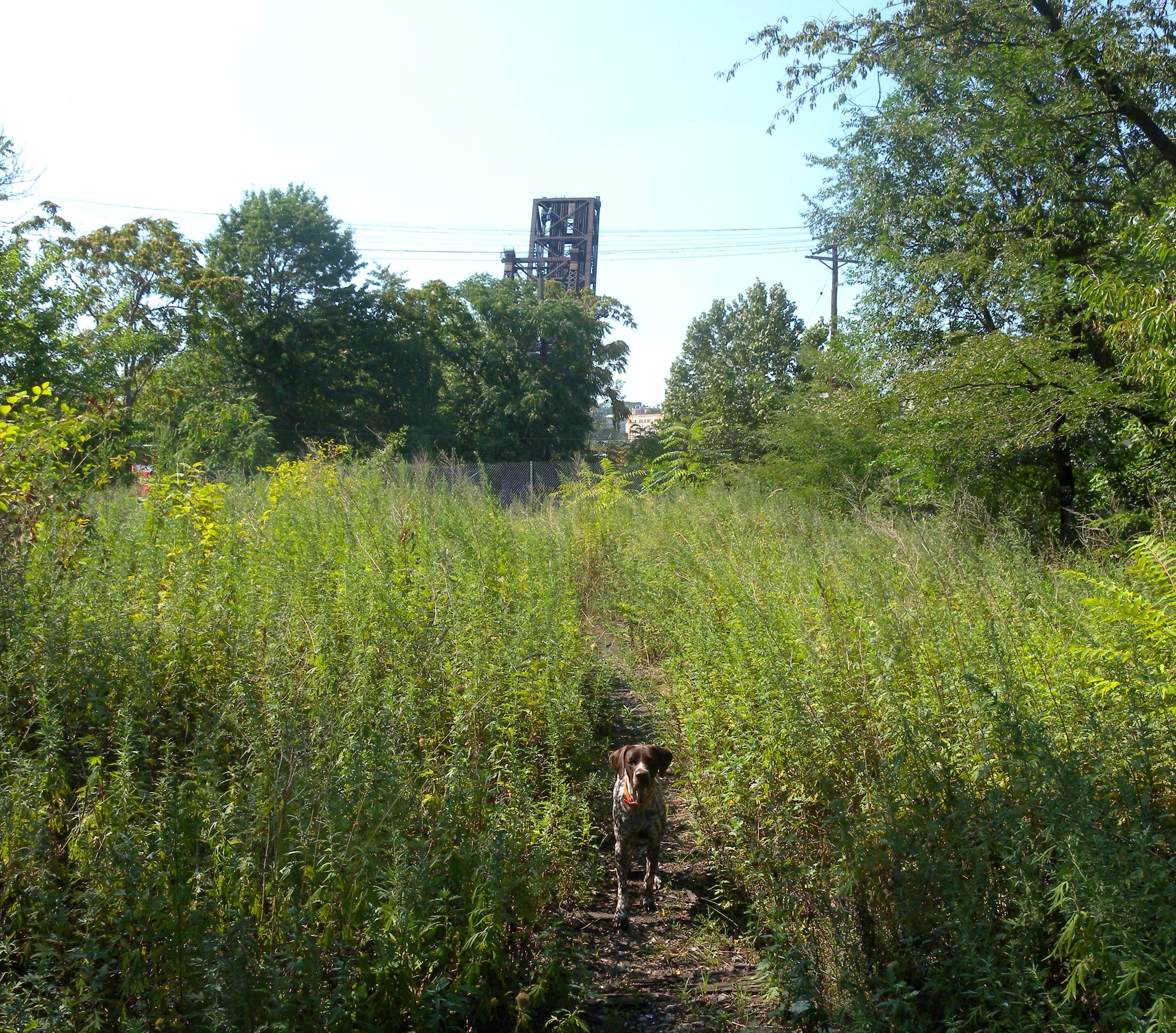 Looking northwest along E-L embankment towards Passaic Avenue and drawbridge on a sunny midday.